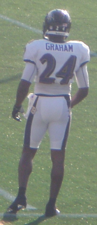 Baltimore Ravens cornerback Corey Graham at Navy-Marine Corps Memorial Stadium in 2012.